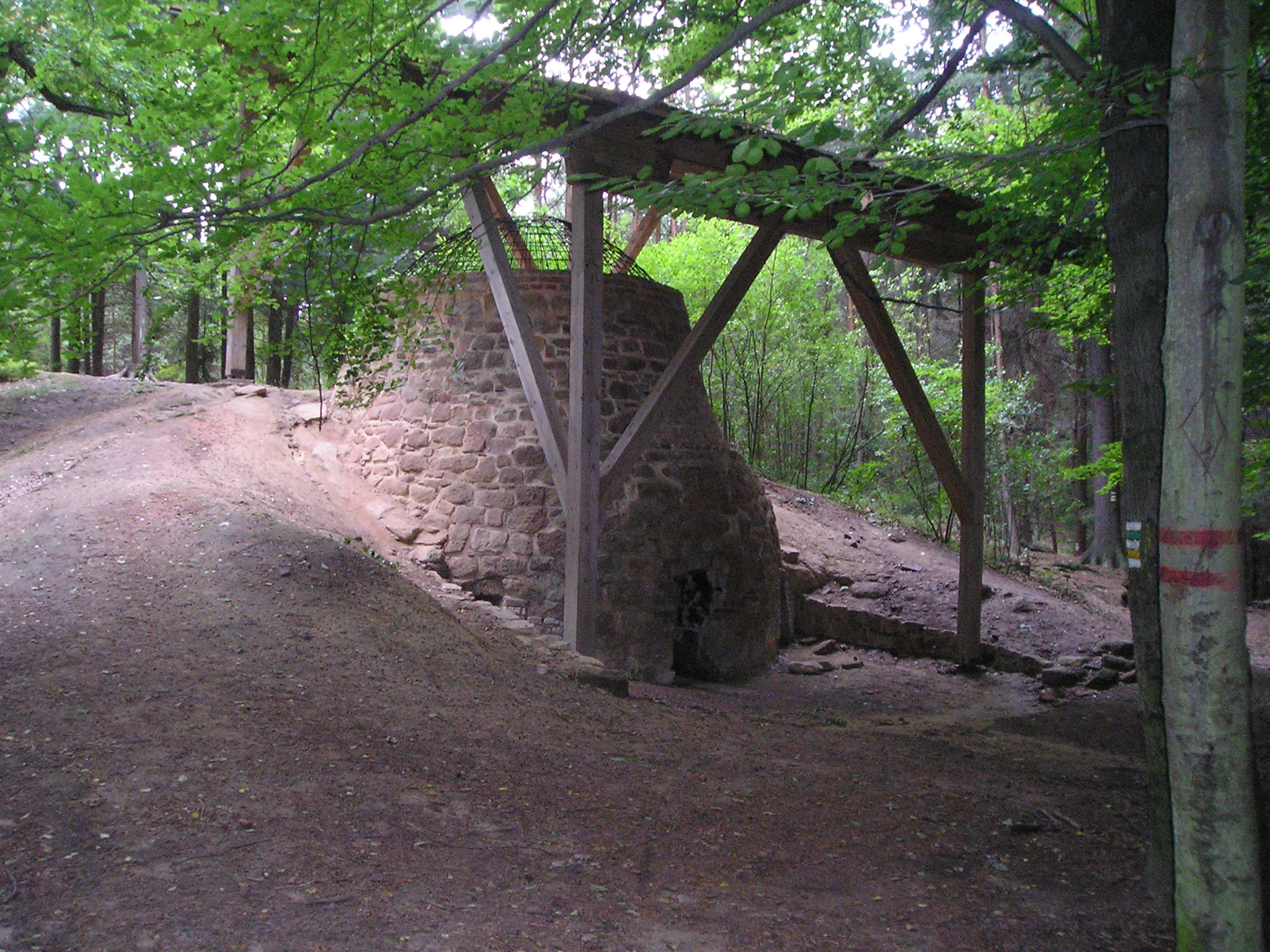 Tar oven, Bolevec, Pilsen